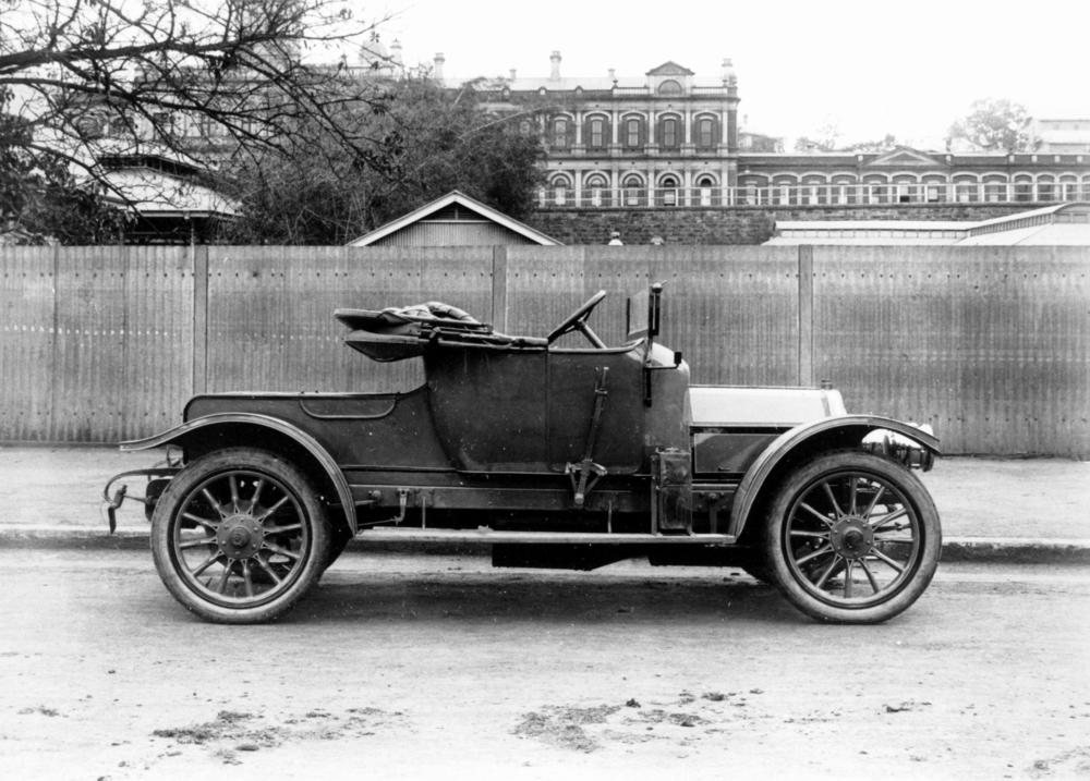 1912 model Itala vehicle parked on Adelaide Street, Brisbane A two-seater Italian-built, imported Itala car. The distinctive brickwork facade of the Central Railway Station, Brisbane is visible on the adjacent street. See also negatives numbers, 87000, 87001, 87004, 87006, 87015.